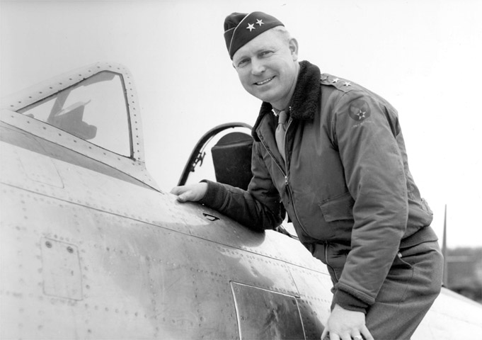 General Weyland standing on the wing of his Thunderbolt shortly after his appointment to Major General while in Luxembourg City. He often flew between Rear and Advance Headquarters of the XIX Tactical Air Command to coordinate activities (Spires, David N. Air power for Patton's Army: The XIX Tactical Air Command in the Second World War. U.S. Air Force: Air Force History and Museums Program, 2002, p. 120.)